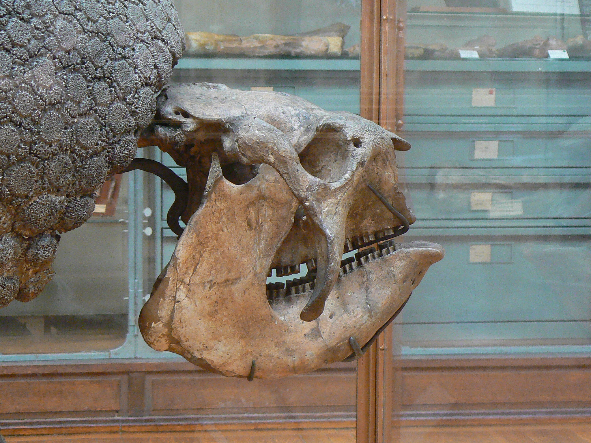 Glyptodon asper